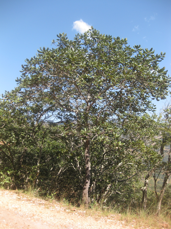 Uapaca kirkiana on the way up to Mount Tsetserra in Mozambique. Fruits are very sweet and can be made into a good quality wine.